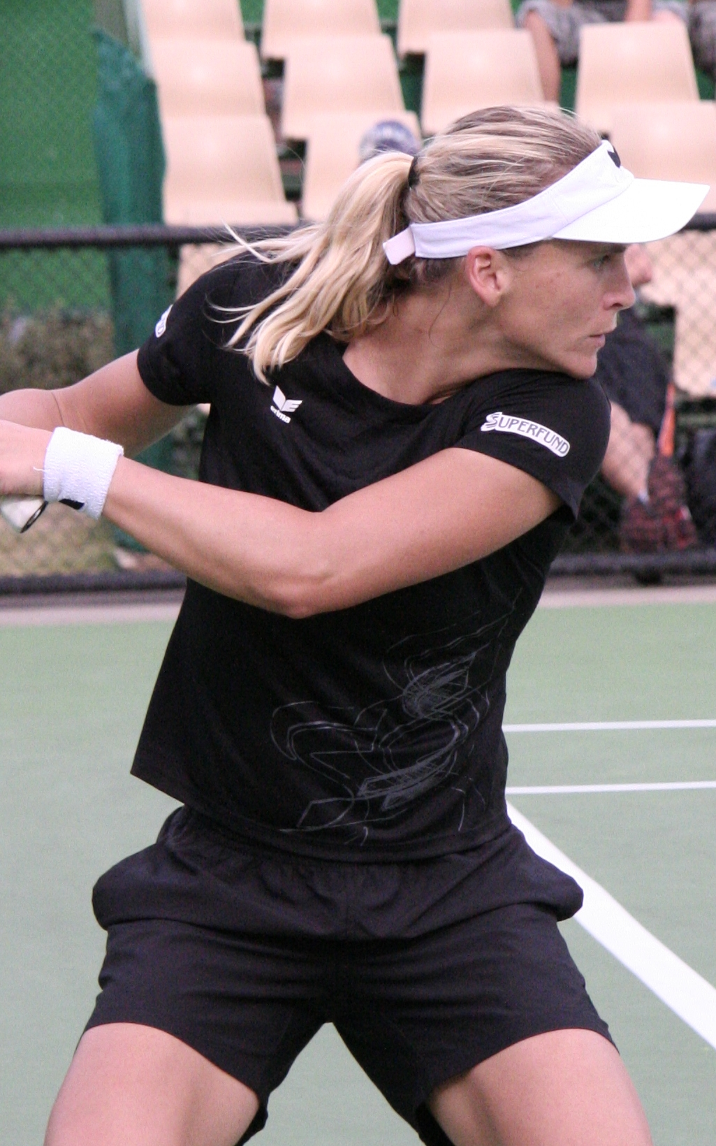 Sybille Bammer at the 2007 Australian Open.